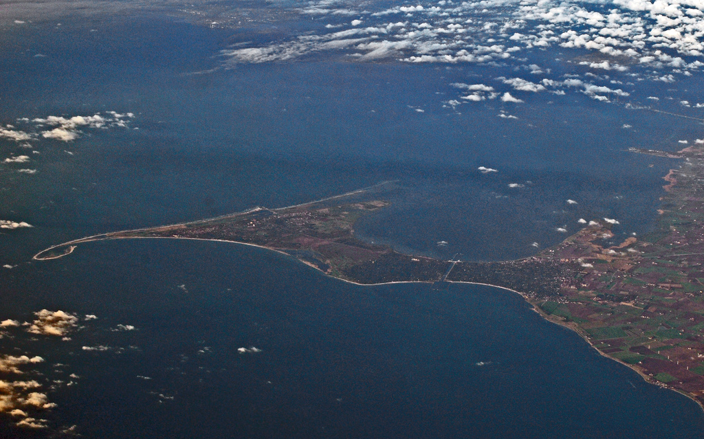 Vellinge Municipality en route Hong Kong to London